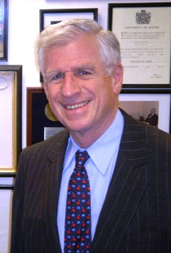 John Danforth, former US Ambassador to the United Nations.